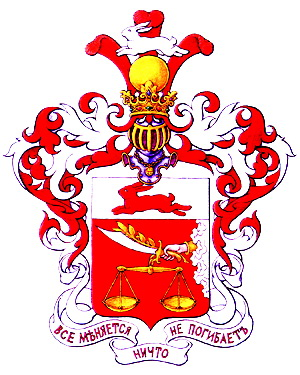 Coat of arms of Sabliny